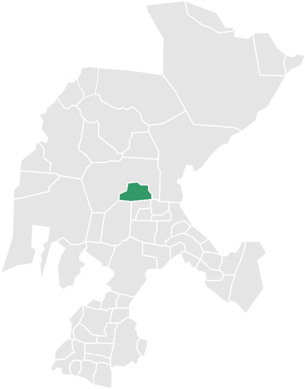 Map of the Municipality of General Enrique Estrada in Zacatecas, México.